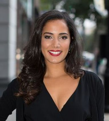 cropped